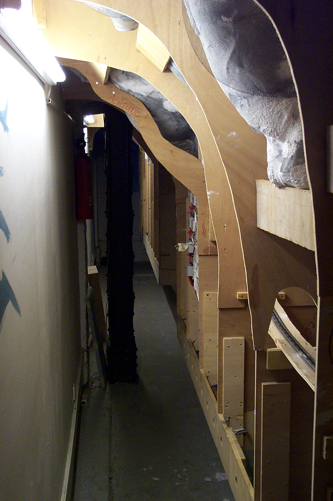 Service tunnel below the "Alps" at Miniatur-Wunderland model railroad, Hamburg, Germany